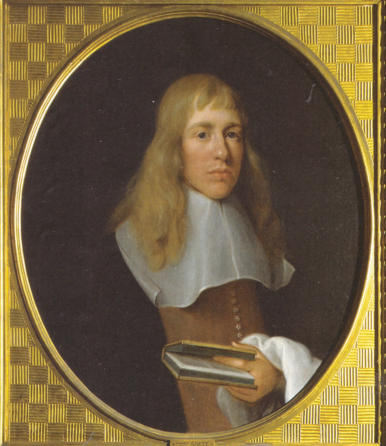 Painting of Francis Willughby by Gerard Soest between 1657 and 1660